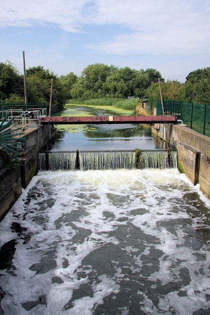 Handford Sea Lock This disused lock, now a weir, was the final lock of 15 between Stowmarket and Ipswich when the River Gipping was navigable as the 'Stowmarket Navigation', until 1920. This view is upstream, towards Stowmarket.